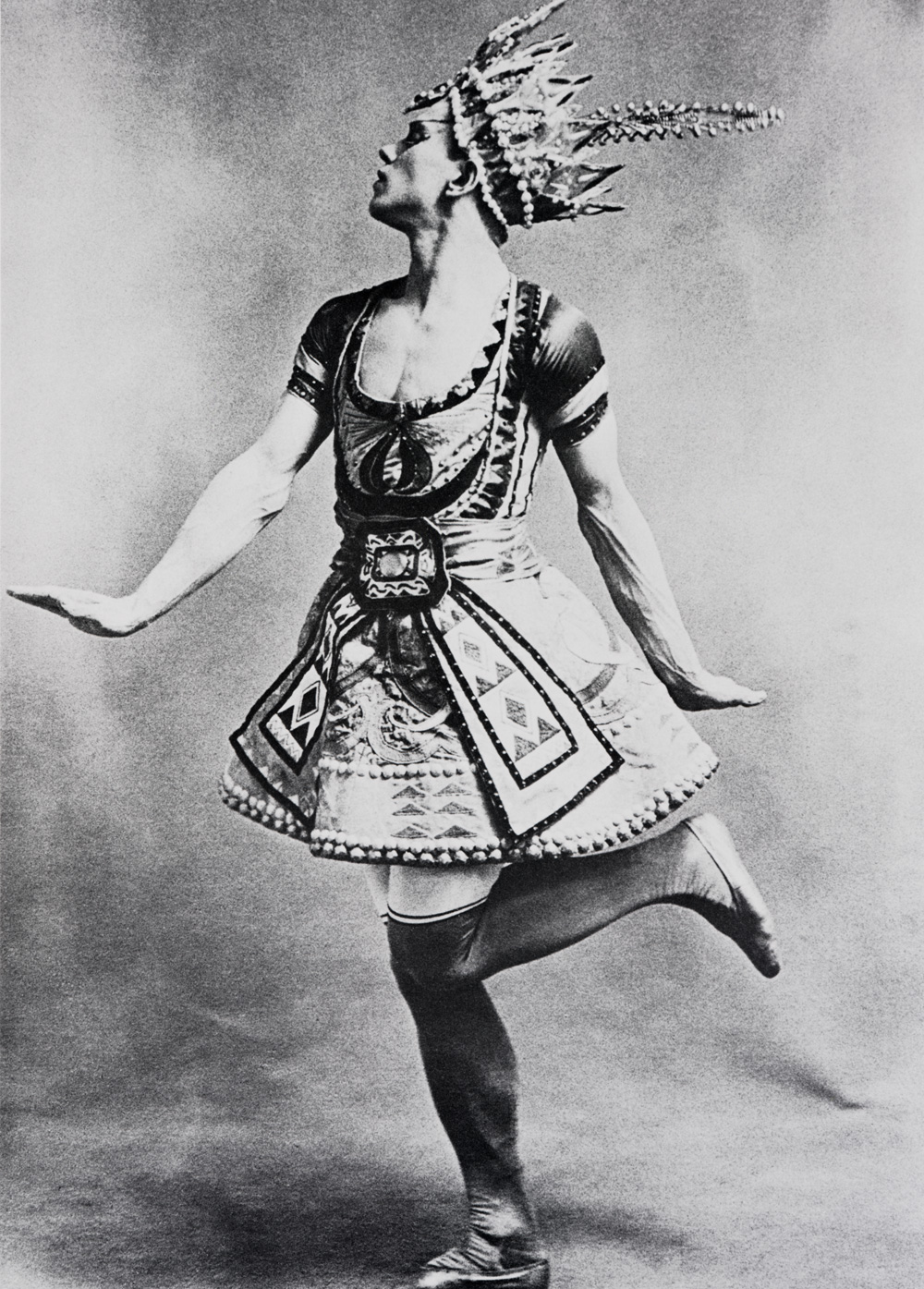 Photo of Nijinsky as The Blue God 1911